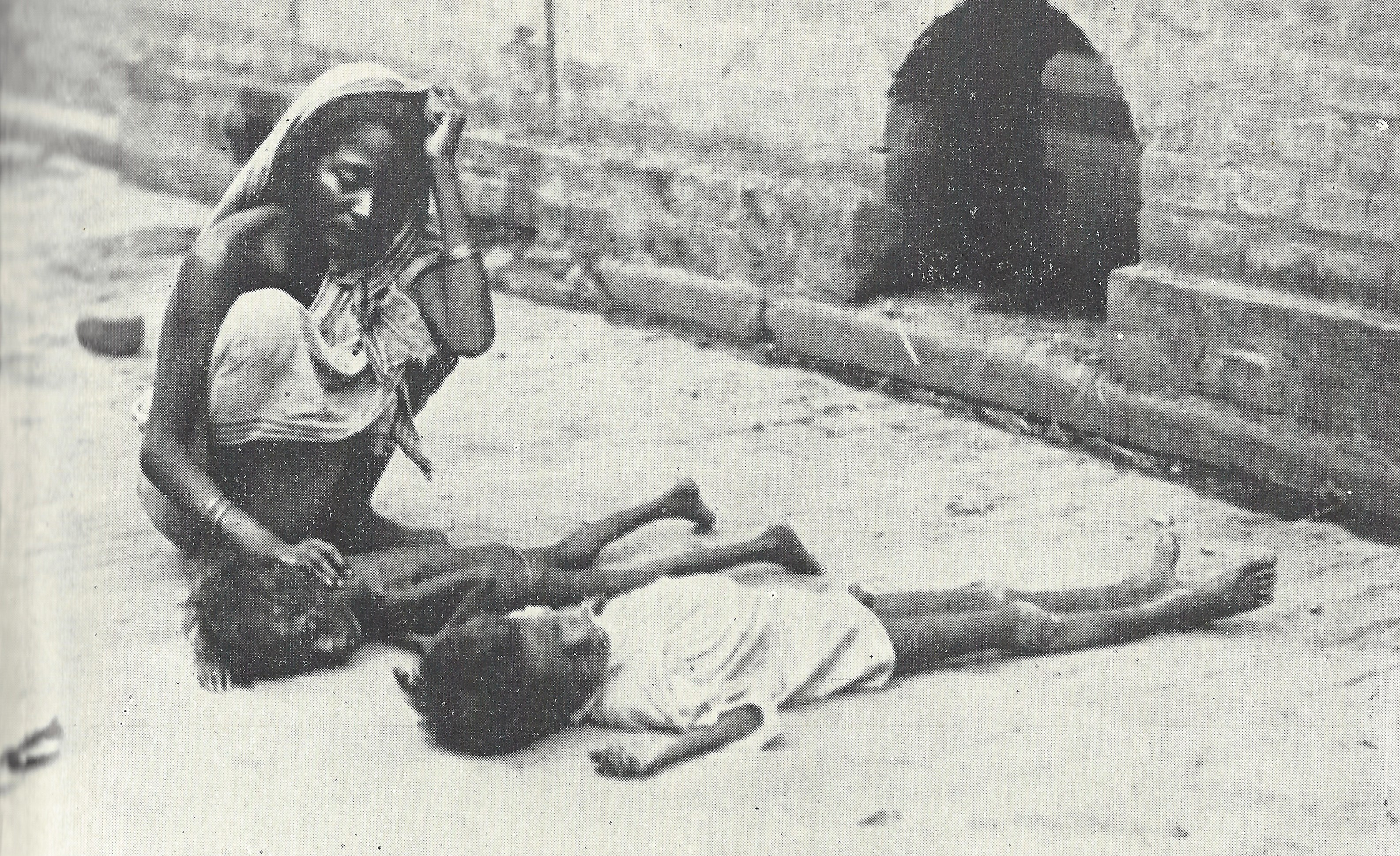 Bengal famine of 1943: Dead and dying children on a Calcutta street published in the Statesman 22 August 1943